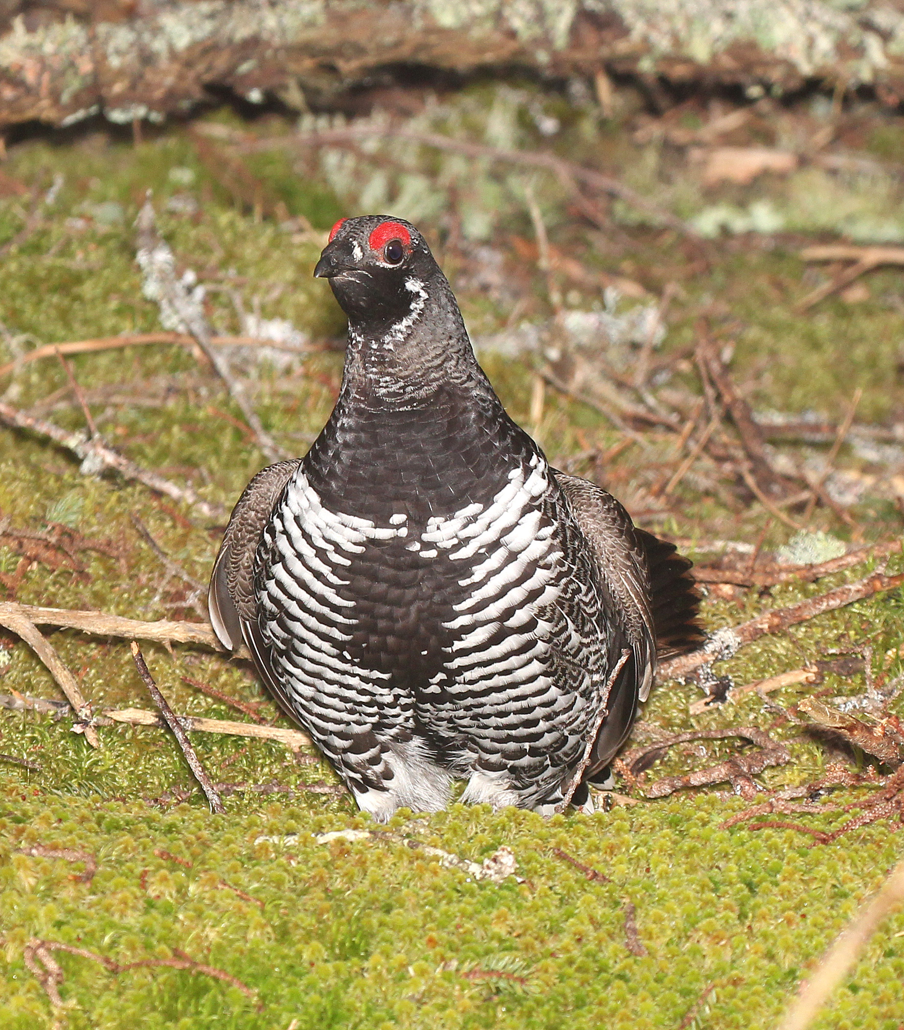 ABA AREA BIRDS: My Photo "Life List"